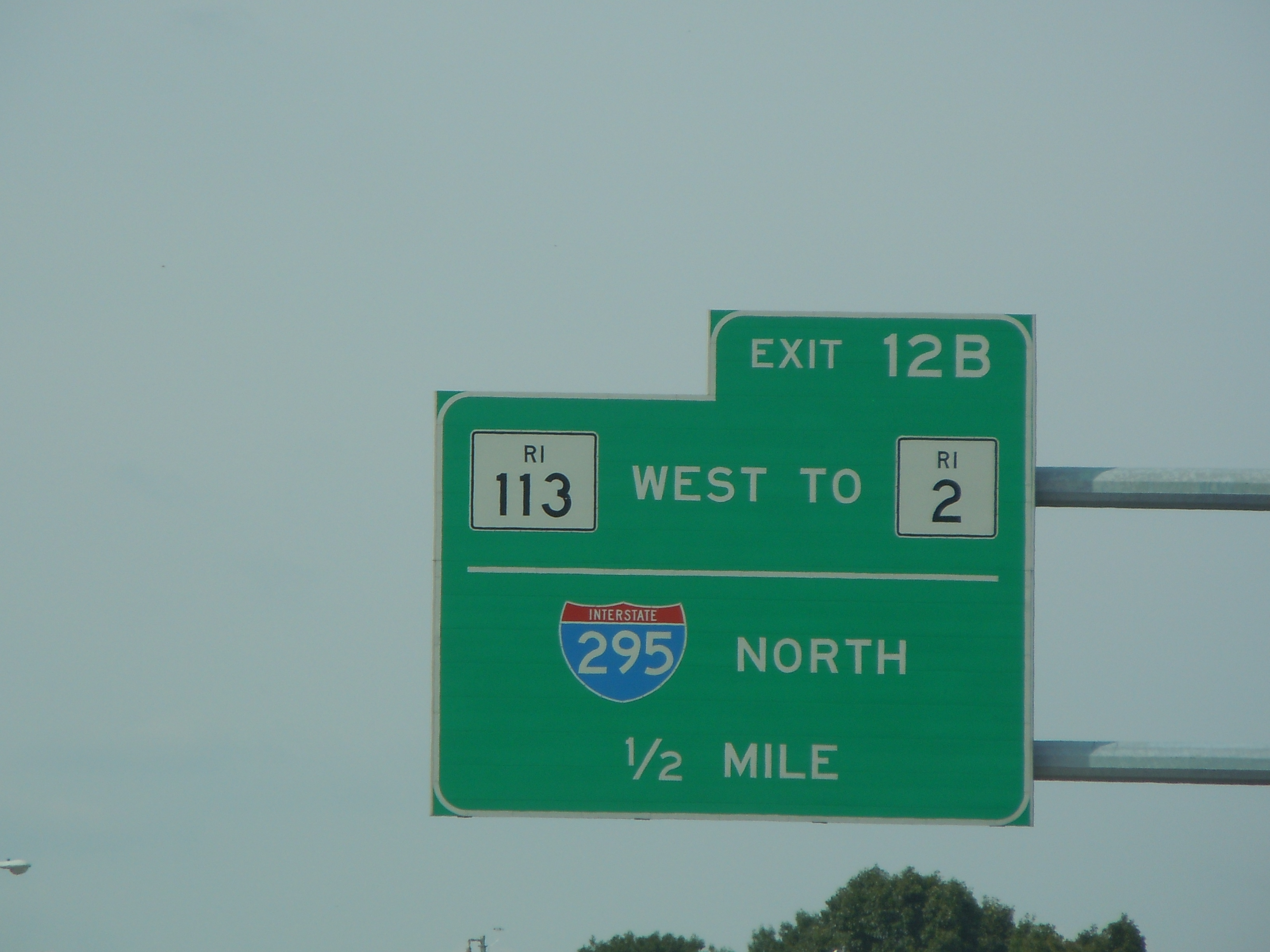 Exit 12B off Interstate 295 in RI to RI route 113.